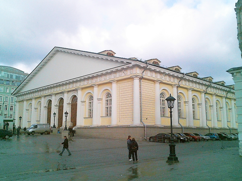 Manege Moscow Russia